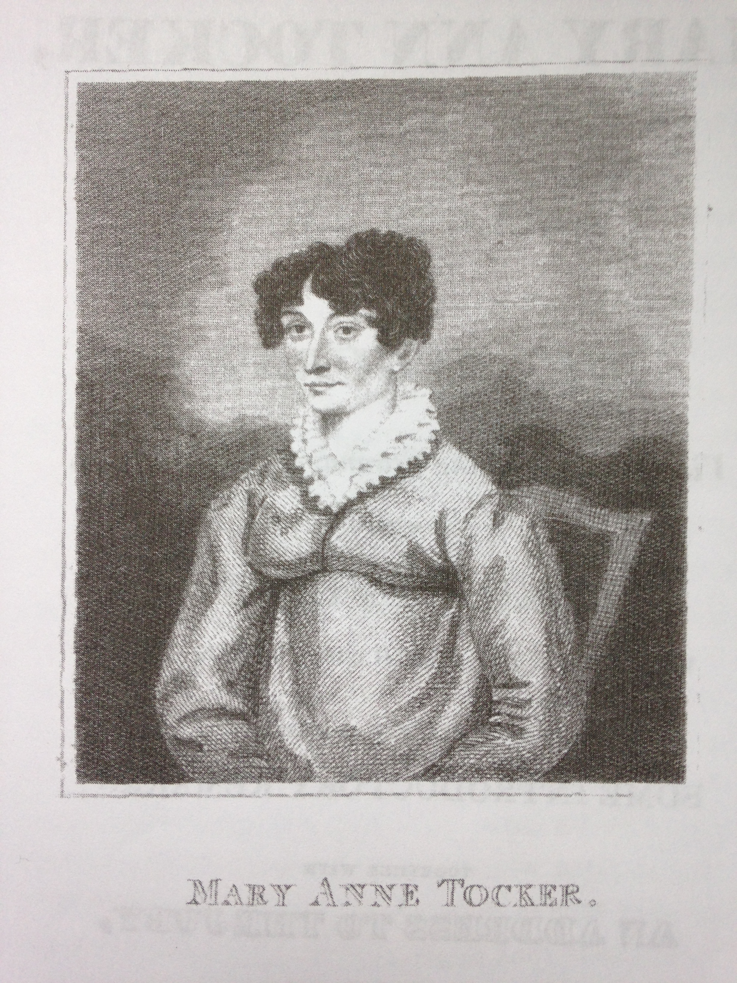 Mary Ann Tocker published her own portrait in her account of her trial in 1818.